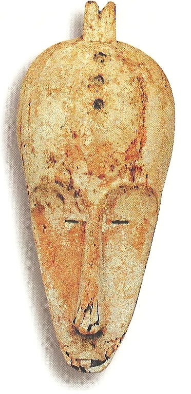 Bodi gabonese traditionnal mask from the Fang ethny